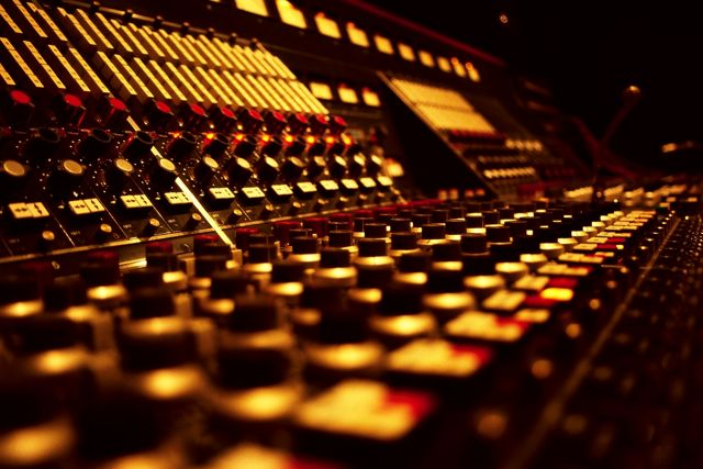 Close up view of Neve Vintage 1974 EMI Neve (serial number A3095) 24 inputs / 16 returns 1093 preamp modules (5 band EQ) ×24 1977 channel routing units 3415 line amps